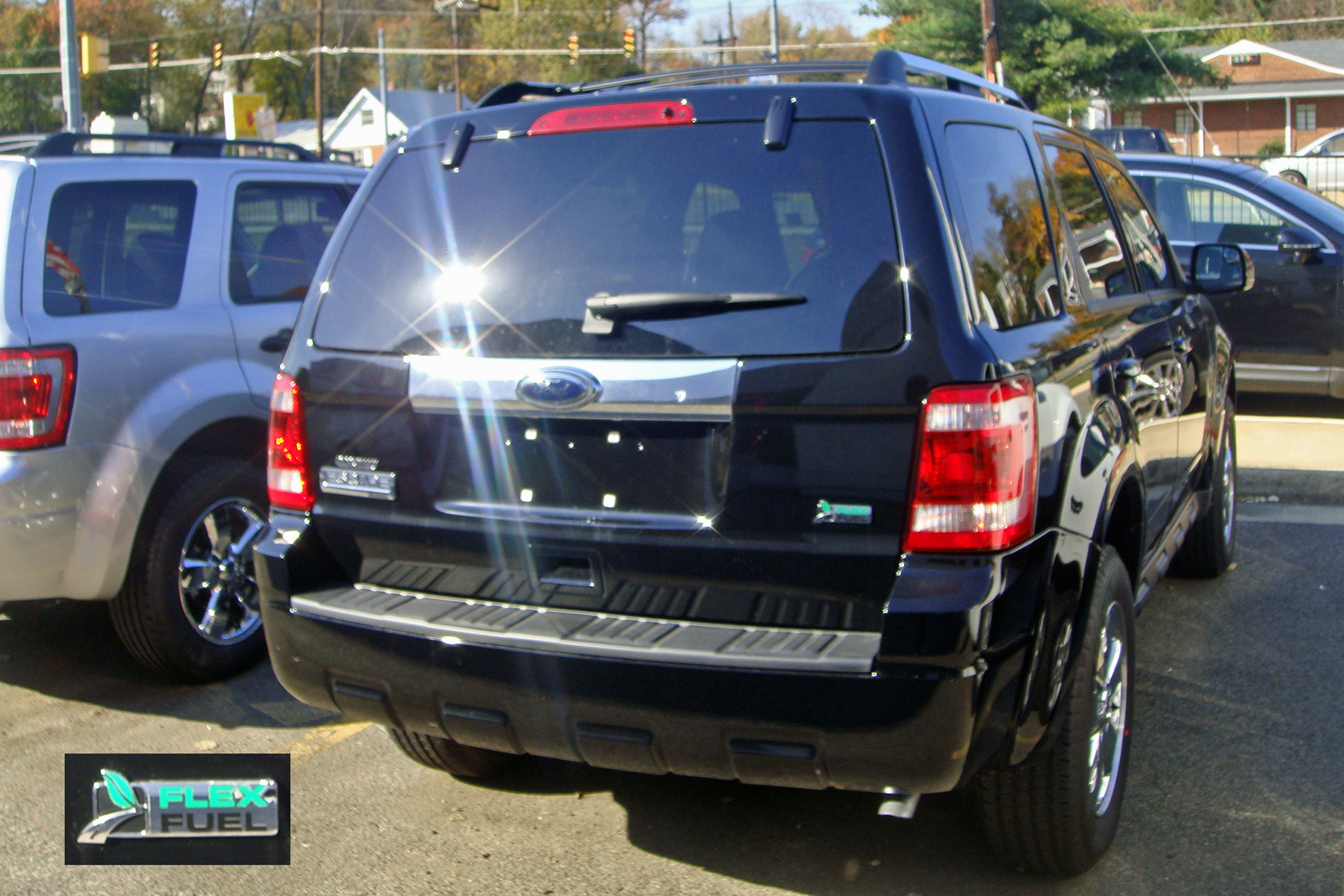 2010 Ford Escape Flex-Fuel version, Alexandra, VA, USA